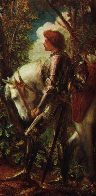 Sir Galahad.